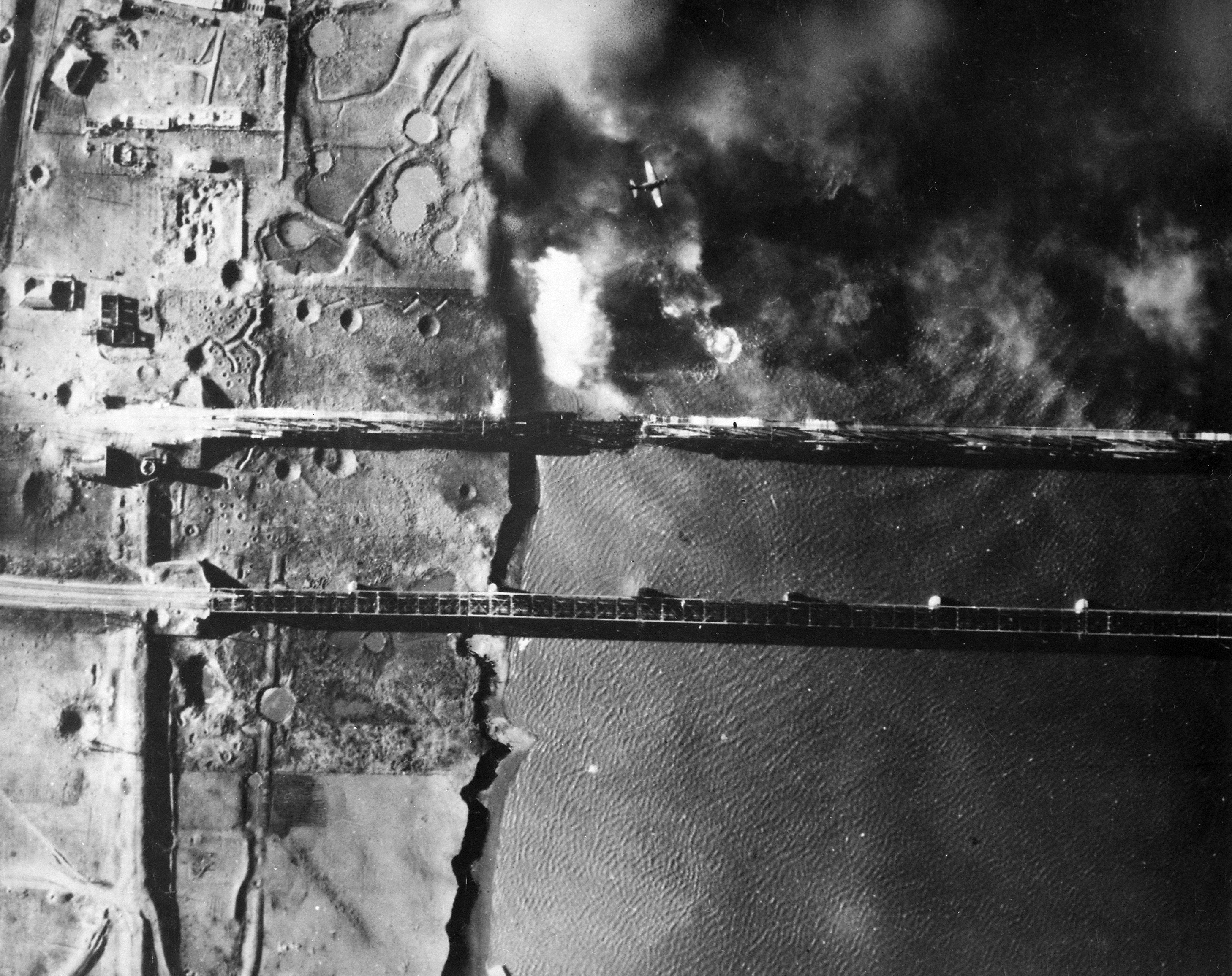 A U.S. Navy Douglas AD-3 Skyraider aircraft pulls out of a dive after dropping a 907 kg (2000 lbs) bomb on the Korean side of two bridges crossing the Yalu River at Sinuiju (Korea), into Manchuria (PR China), on 15 November 1950.